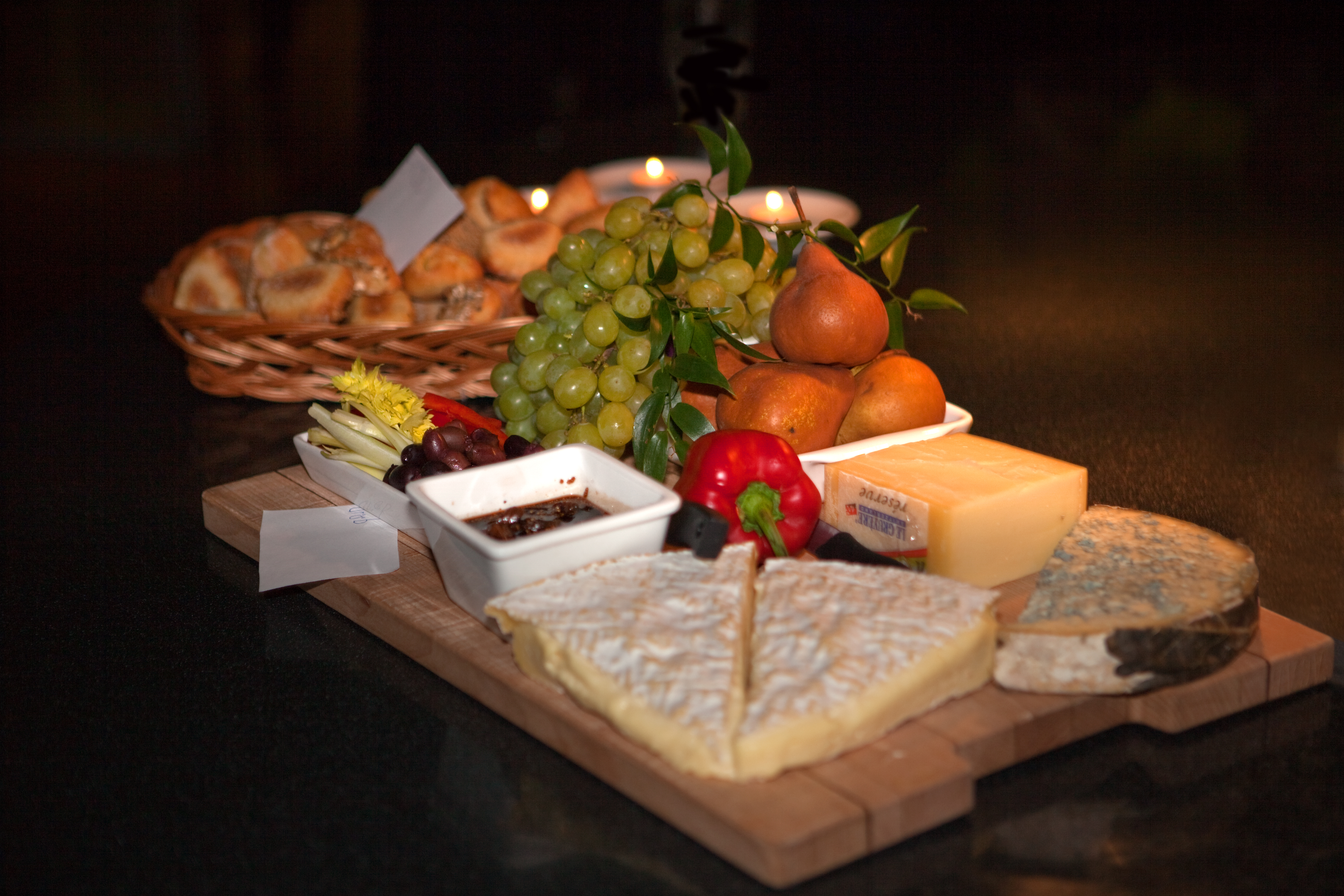 Cheese, bell pepper, pears and grapes.